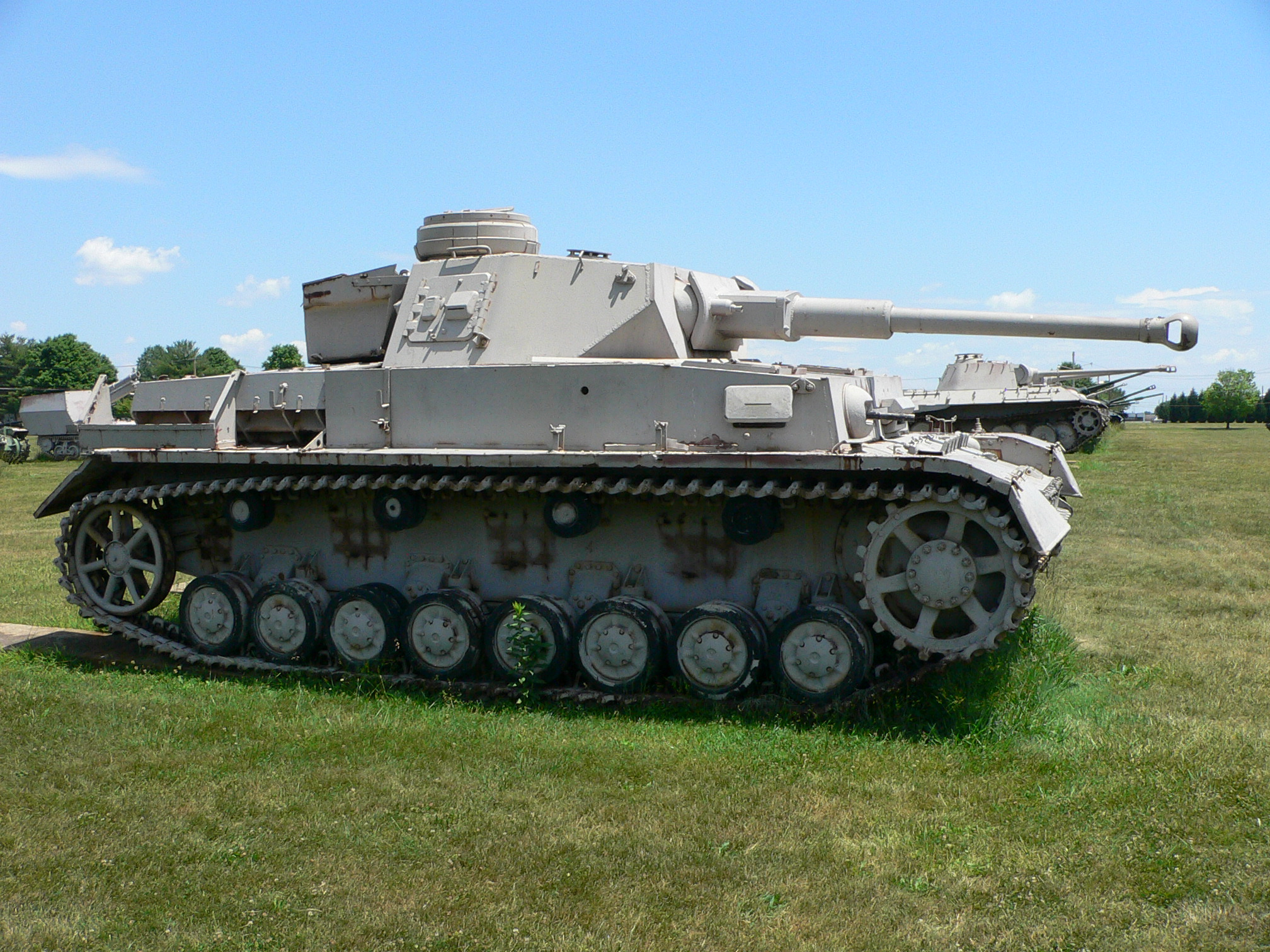 “Special purpose vehicle” of the German Wehrmacht until 1945, here: Sd.Kfz 161/1, German medium tank IV, also Tank IV, versions: F2 and G. Actual file: Sd.Kfz. 161/1, Ausf. G with 7.5-cm-KwK 40.